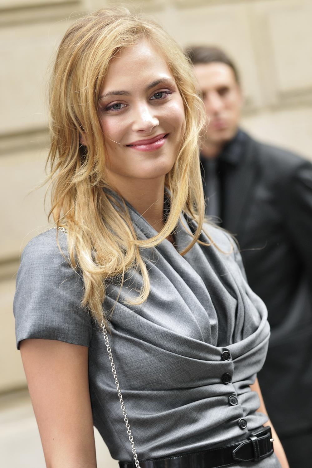 Actress and singer Nora Arnezeder — People aux défilés de Haute-Couture, Paris, le 6 Juillet 2009.Collection Automne-Hiver 2009/2010.